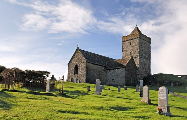 St. Clement's Church St Clement's Church, on the Isle of Harris is situated in the village of Rodel, three miles south of Leverburgh. It was built in the late 15th century for the Chiefs of the MacLeods of Harris, who lived at Dunvegan Castle on the Isle of Skye.